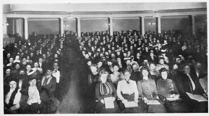 Handel & Haydn Society chorus rehearsal in Potter Hall, Boston, 1903